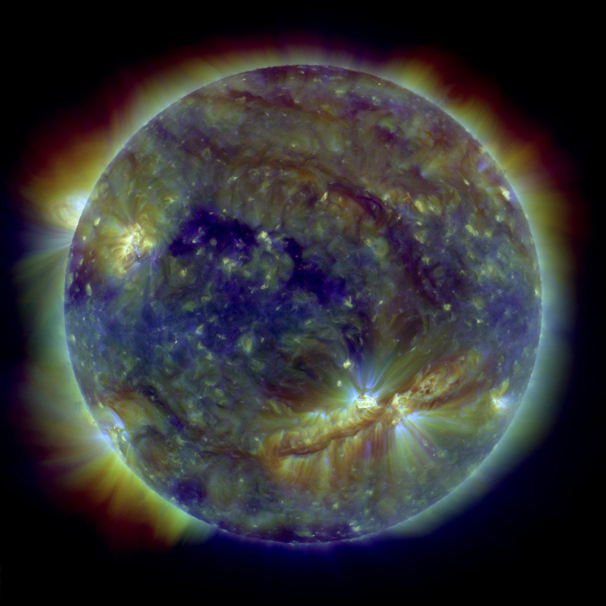 Fast-growing NOAA active region No. 11112, crackling with solar flares, surrounds a sunspot group in the SW quadrant (lower right). On October 16, 2010, this region launched a CME, or coronal mass ejection, toward Earth. In addition, a vast dark solar prominence cuts across the sun's southern hemisphere and links with the sunspot group. This prominence (filament) is so large it spans a distance several times the separation of Earth and the moon.